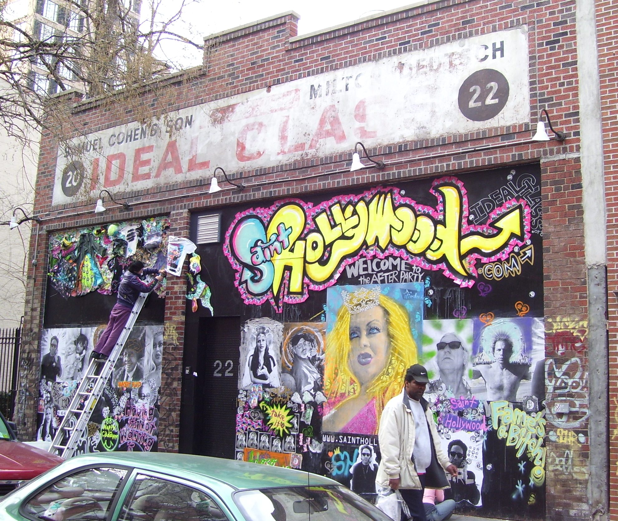 Mural in preparation at 20-22 East 2nd Street between Second Avenue and the Bowery in the East Village neighborhood of Manhattan, New York City, which was built in 1900. (Source: NYC GIS map)